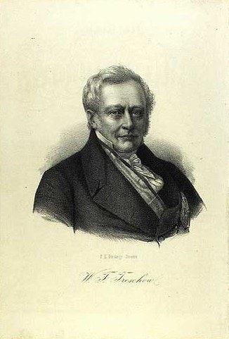 Willum Frederik Treschow (1786-1869), Danish lawyer and politician